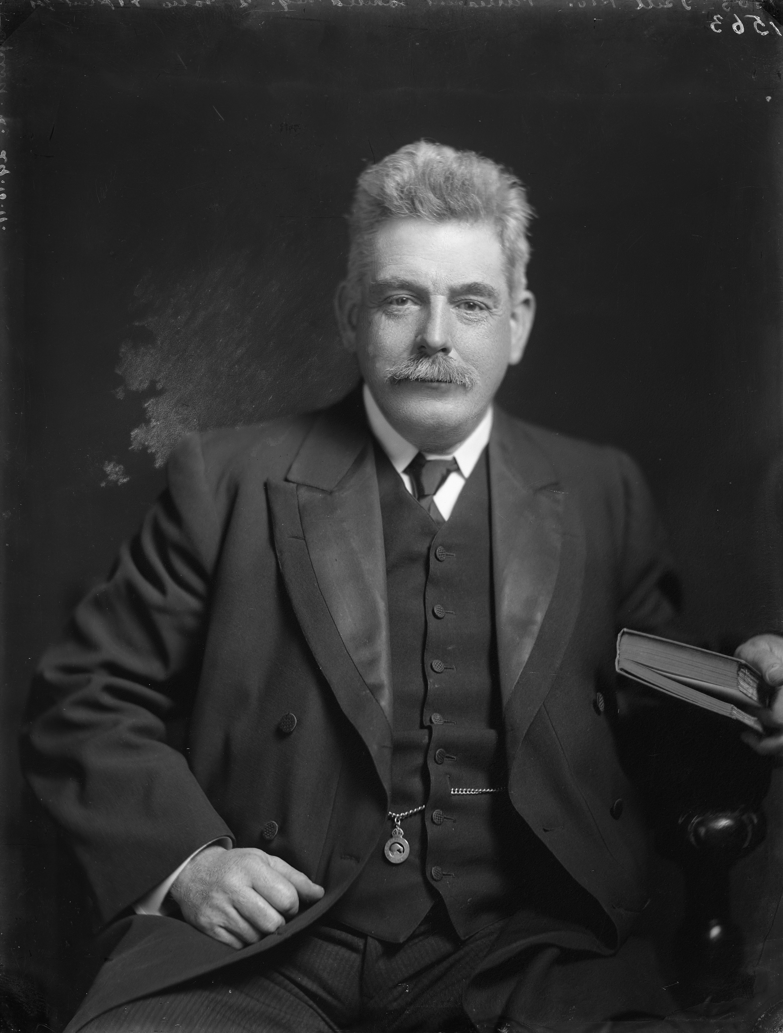 Reverend Leonard Monk Isitt, photographed in 1911 by S P Andrew Ltd.